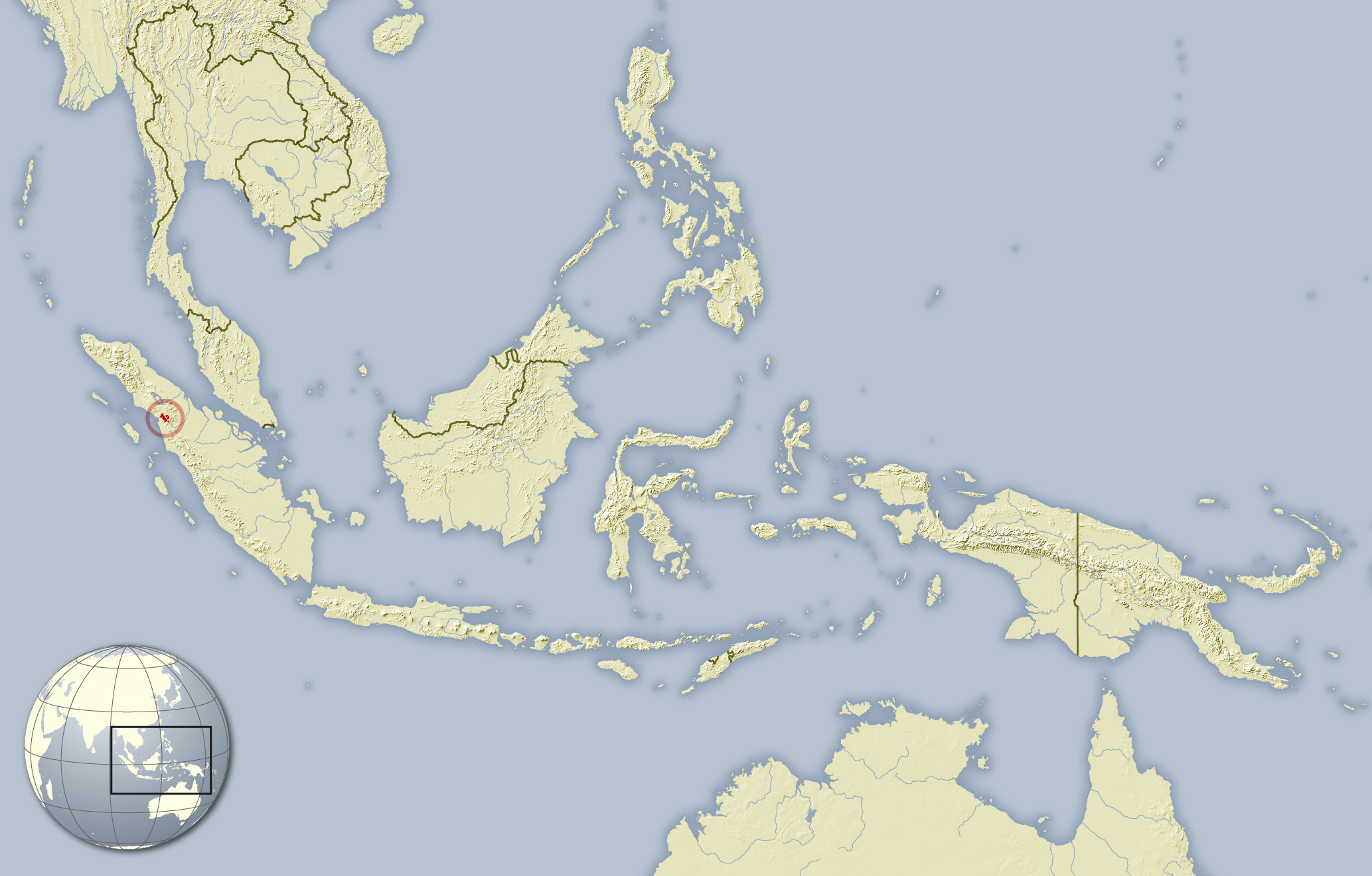 Distribution map of the Tapanuli orangutan